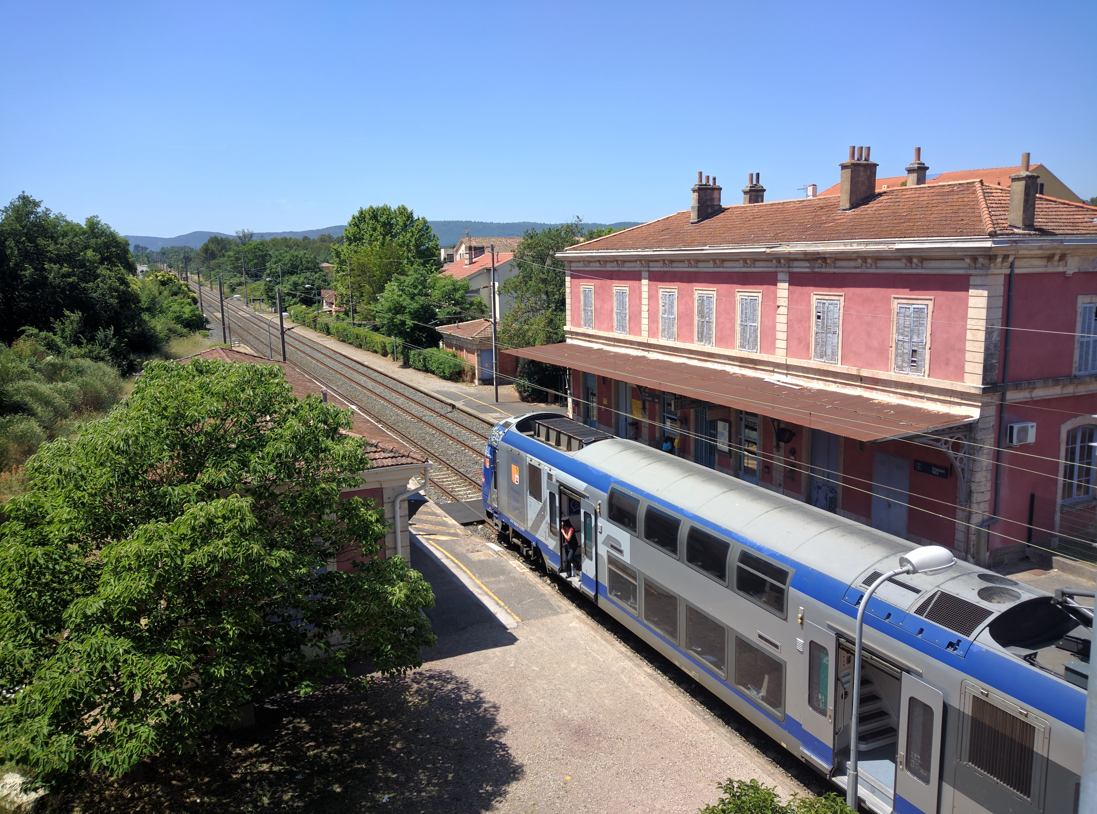 Cannet railway station